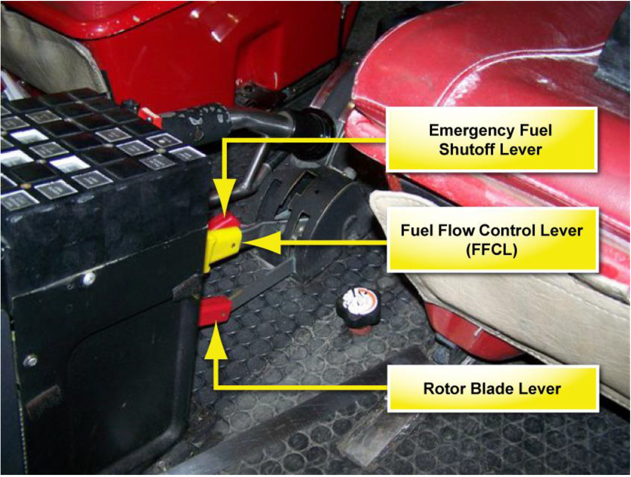 Floor-mounted fuel control quadrant from Eurocopter AS350